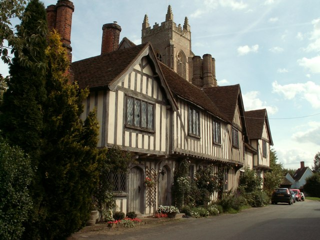 Timber-framed house at Stoke-by-Nayland, Suffolk. This 16th century building was once two houses and known as the Maltings. The tower of the parish church can be seen behind.